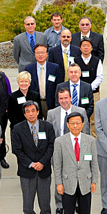 The Office of Environmental Management, the Department of Energy, held the workshop for Japanese officials leading the cleanup of the Fukushima Daiichi Nuclear Power Plant site and surrounding area at the Hanford Site in Washington State on 2012. (c.f. "EM Hosts Second Successful Workshop for Japanese Officials", EM Hosts Second Successful Workshop for Japanese Officials | Department of Energy, Office of Environmental Management, Department of Energy, March 9, 2012.)